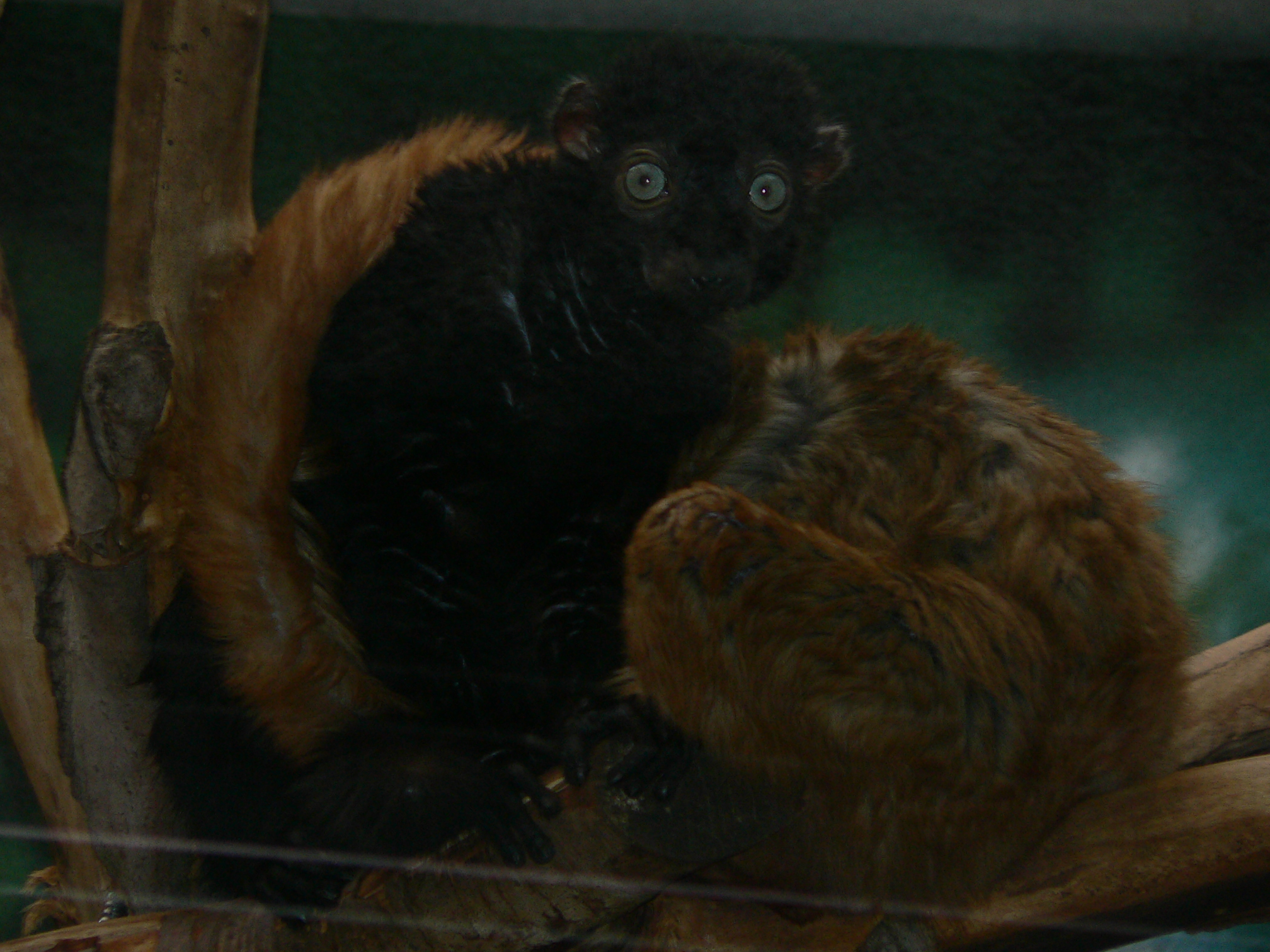 Blue-eyed Black Lemurs at Philadelphia Zoo.